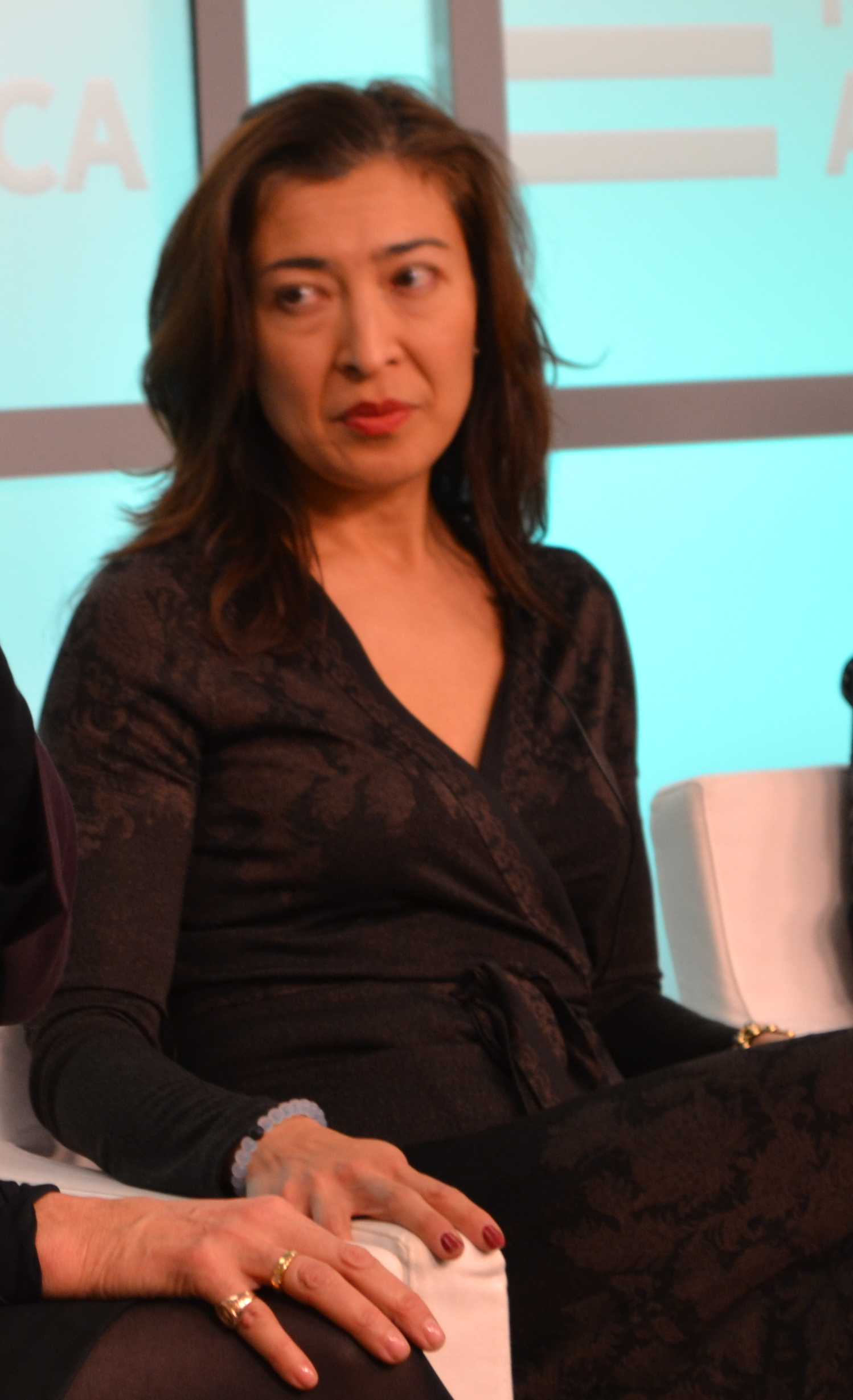 Anne-Marie Slaughter (New America), Elmira Bayrasli (Foreign Policy Interrupted), Lauren Bohn (Foreign Policy Interrupted)\